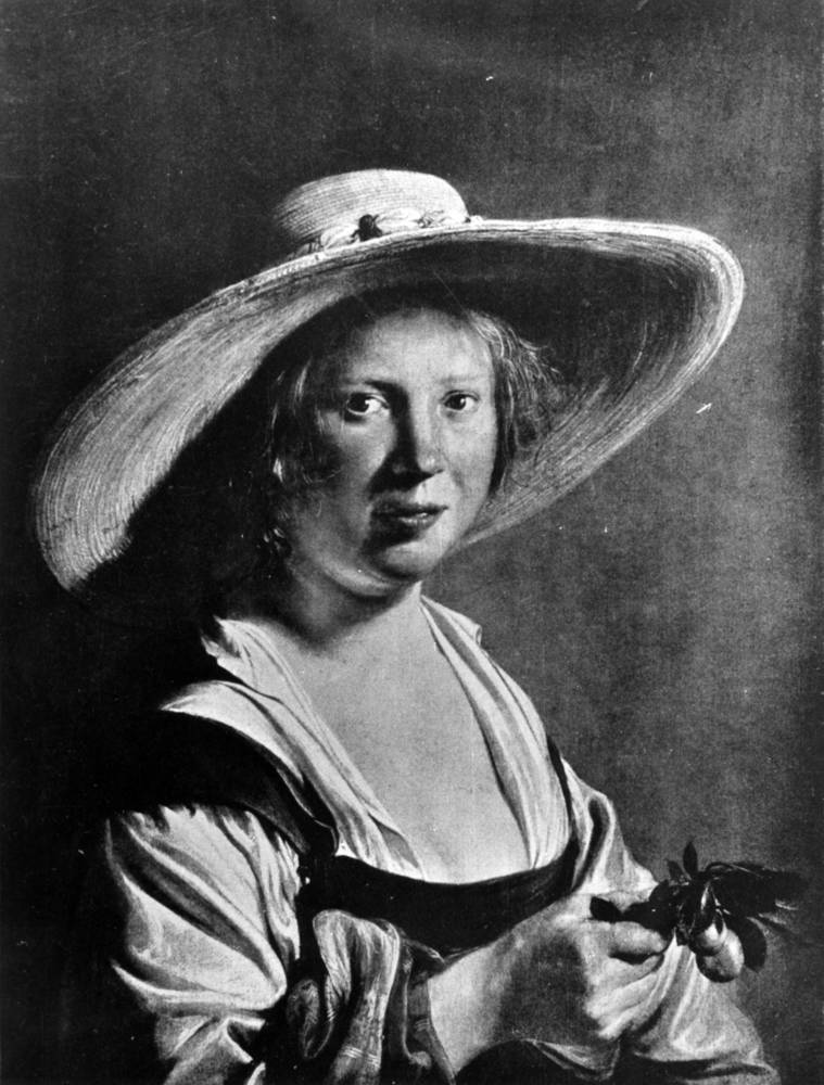 'Young girl in a straw hat', by Salomon de Bray, painted in 1635. This painting was part of the collections of the Gemäldegalerie Alte Meister in Dresden and and it has been missing since the end of World War II, in 1945. - Dimensions: 75,5 x 60,5 cm - Oil painting on wood